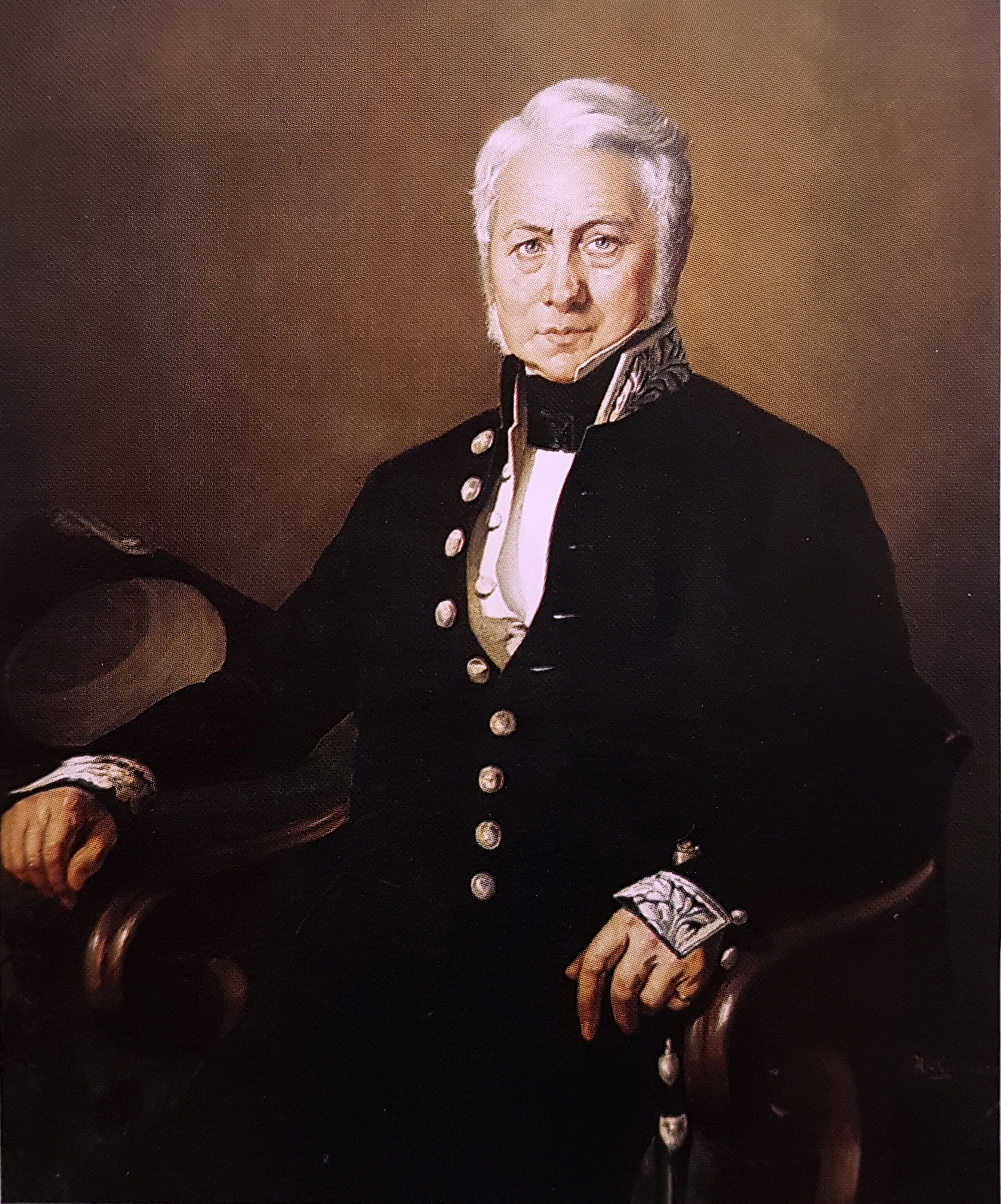 Portrait by Henri Goovaerts of Jean François Hennequin (1772-1846, magistrate of Maastricht during the French and Dutch period, later of Liège. Sided with the Belgian revolutionaries in 1830. Member of parliament. Governor of Belgian province of Limburg.